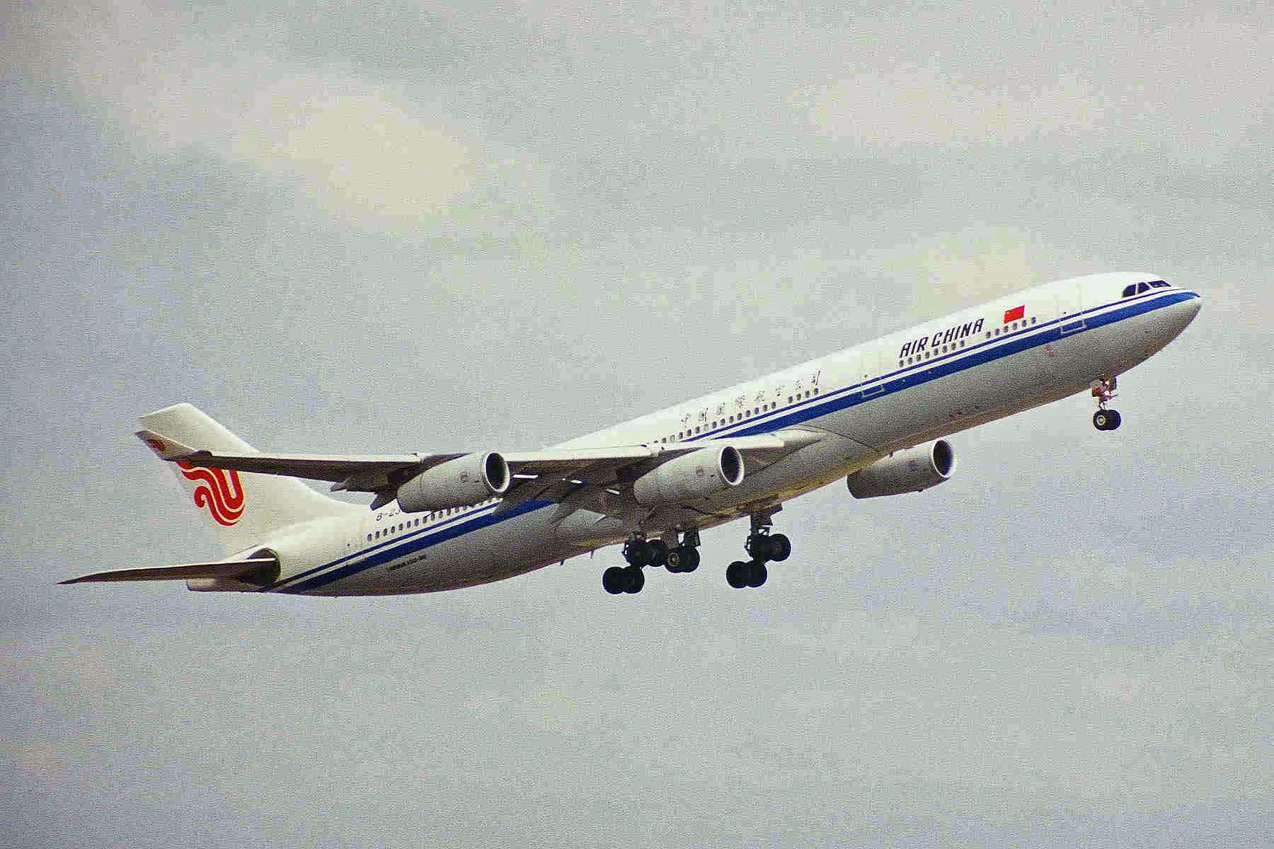 This 1997-built A340-300 flown to Belgrade to pick up the injured after the Chinese embassy bombing in May 1999. WFU February 2013.